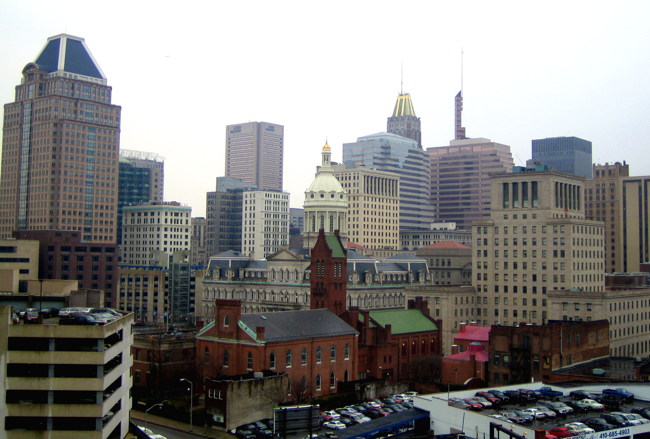 View of Downtown Baltimore from the Utz Building looking SW. City Hall in center.